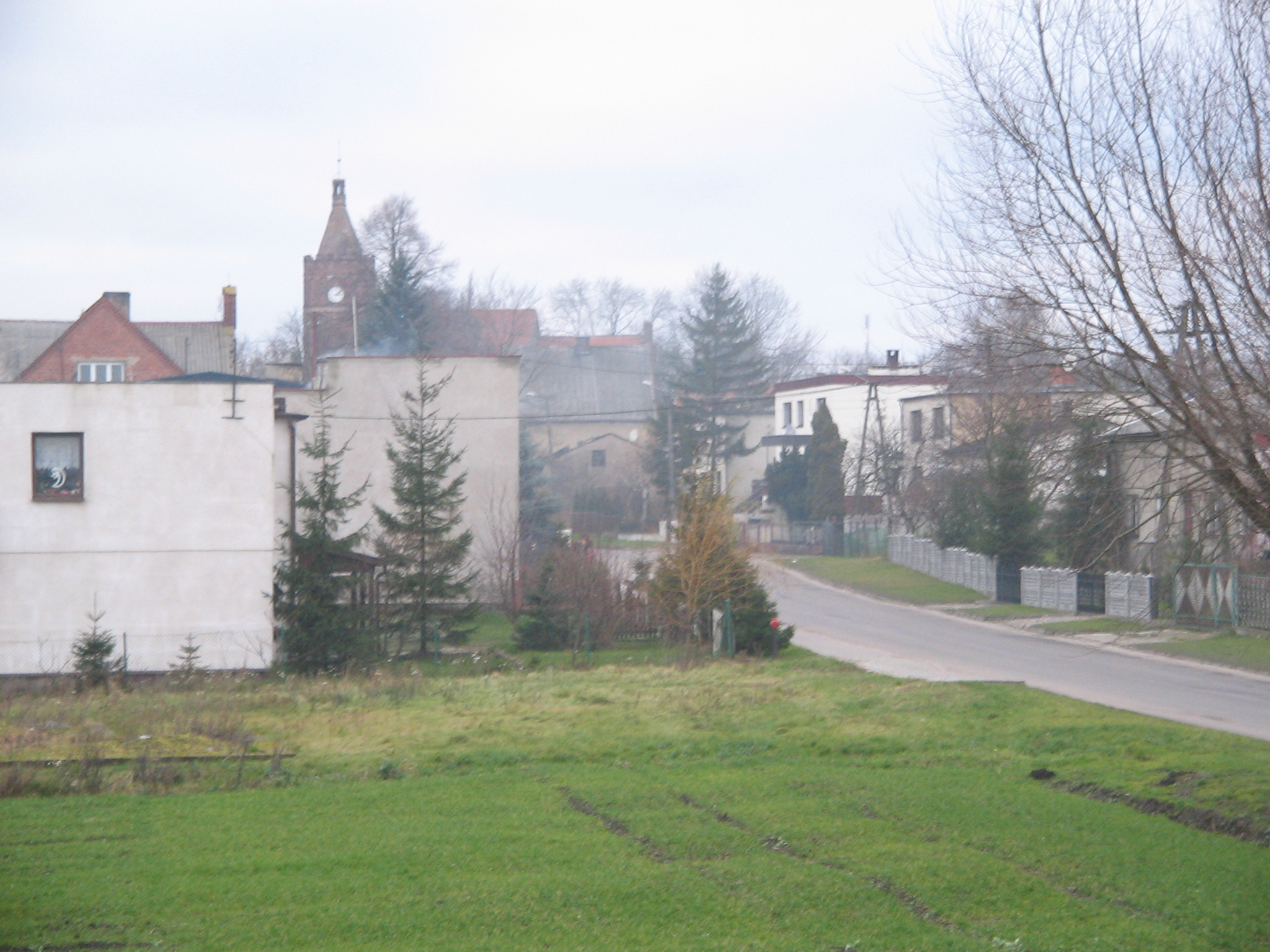 A view of Mikołaja z Ryńska Street in Lisewo, Poland. In the background the tower of gothic church in the centre of Lisewo.